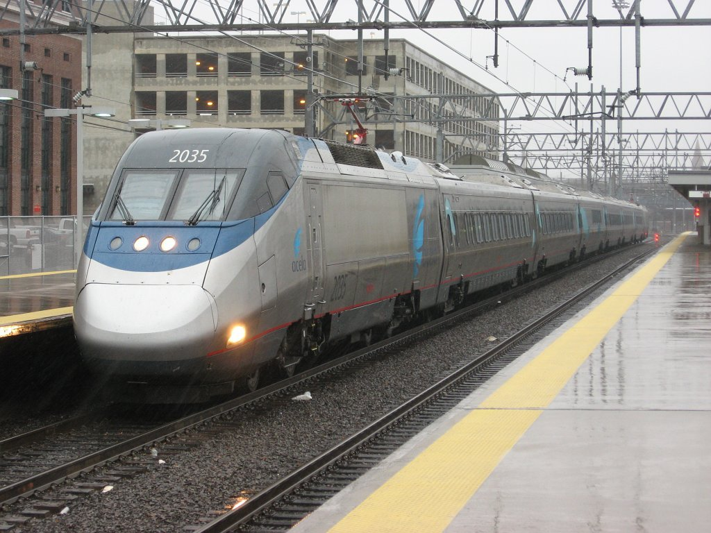 Amtrak Acela Express train, led by locomotive #2035, at New Haven Union Station in New Haven, CT.